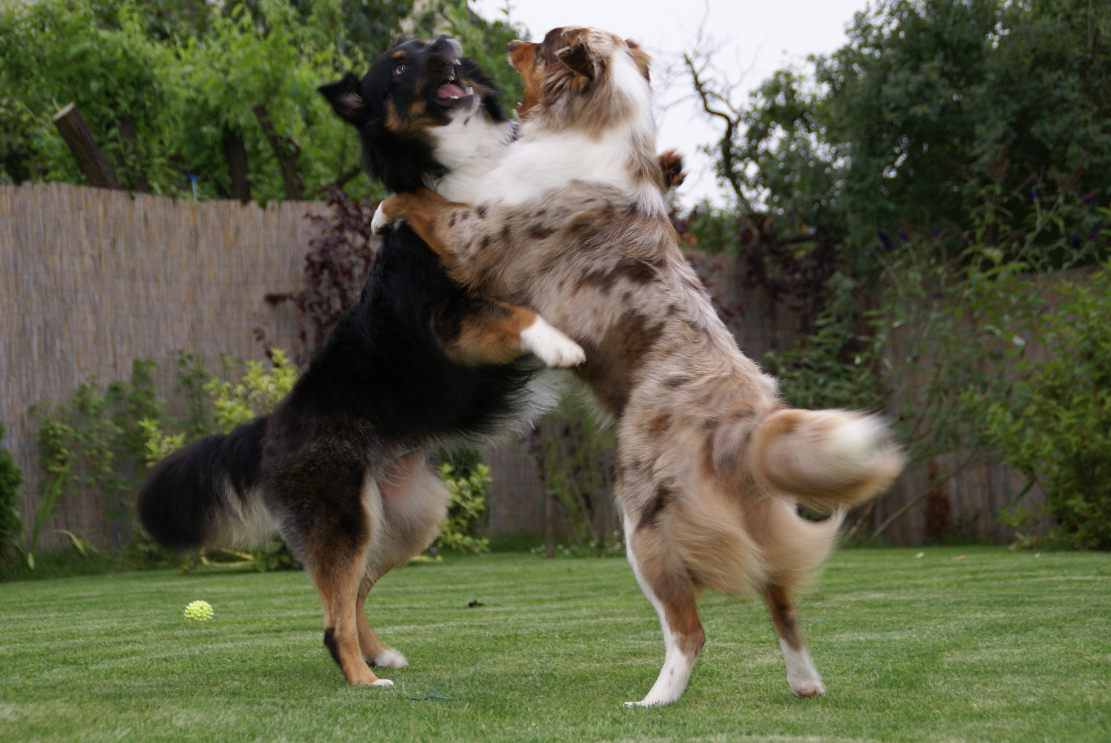 Australien Shepherd